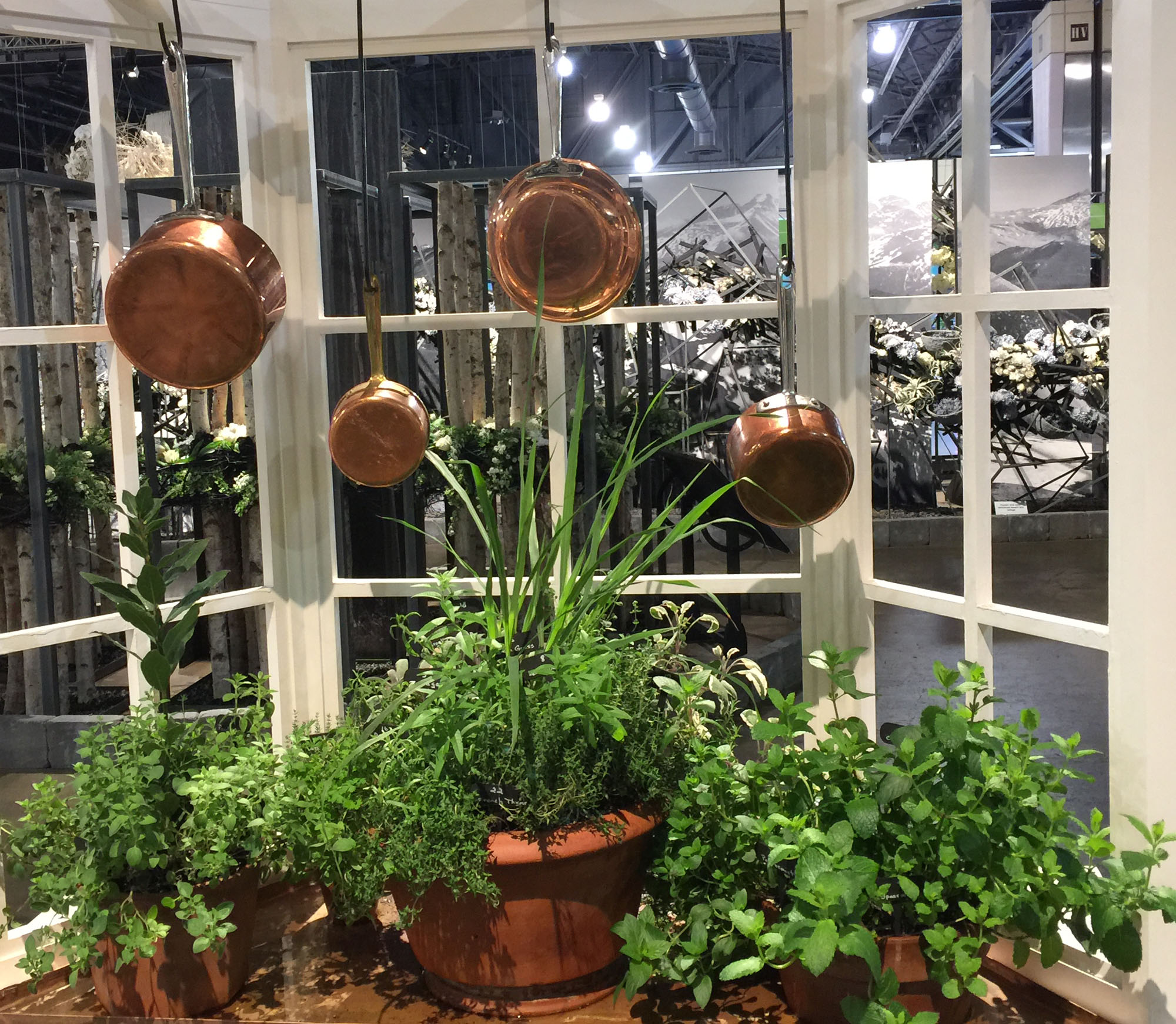 CLASS 168 WINDOWSILL -- TINY TREASURES